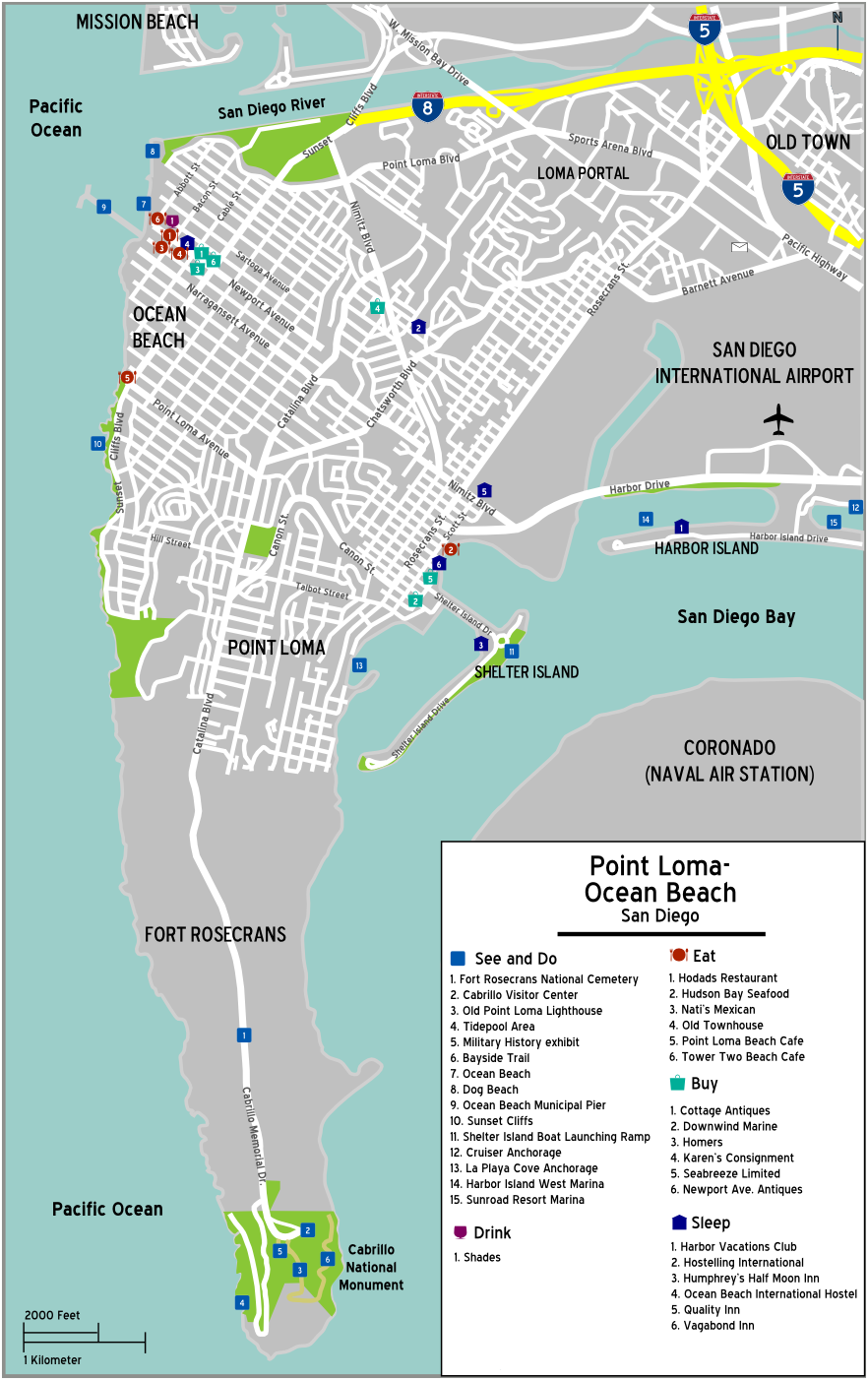 Map of Point Loma, San Diego, moved here as part of Wikivoyage migration.